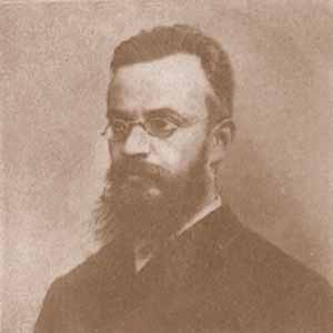 Grigoriy Grumm-Grjimailo, a geographer and the zoologist